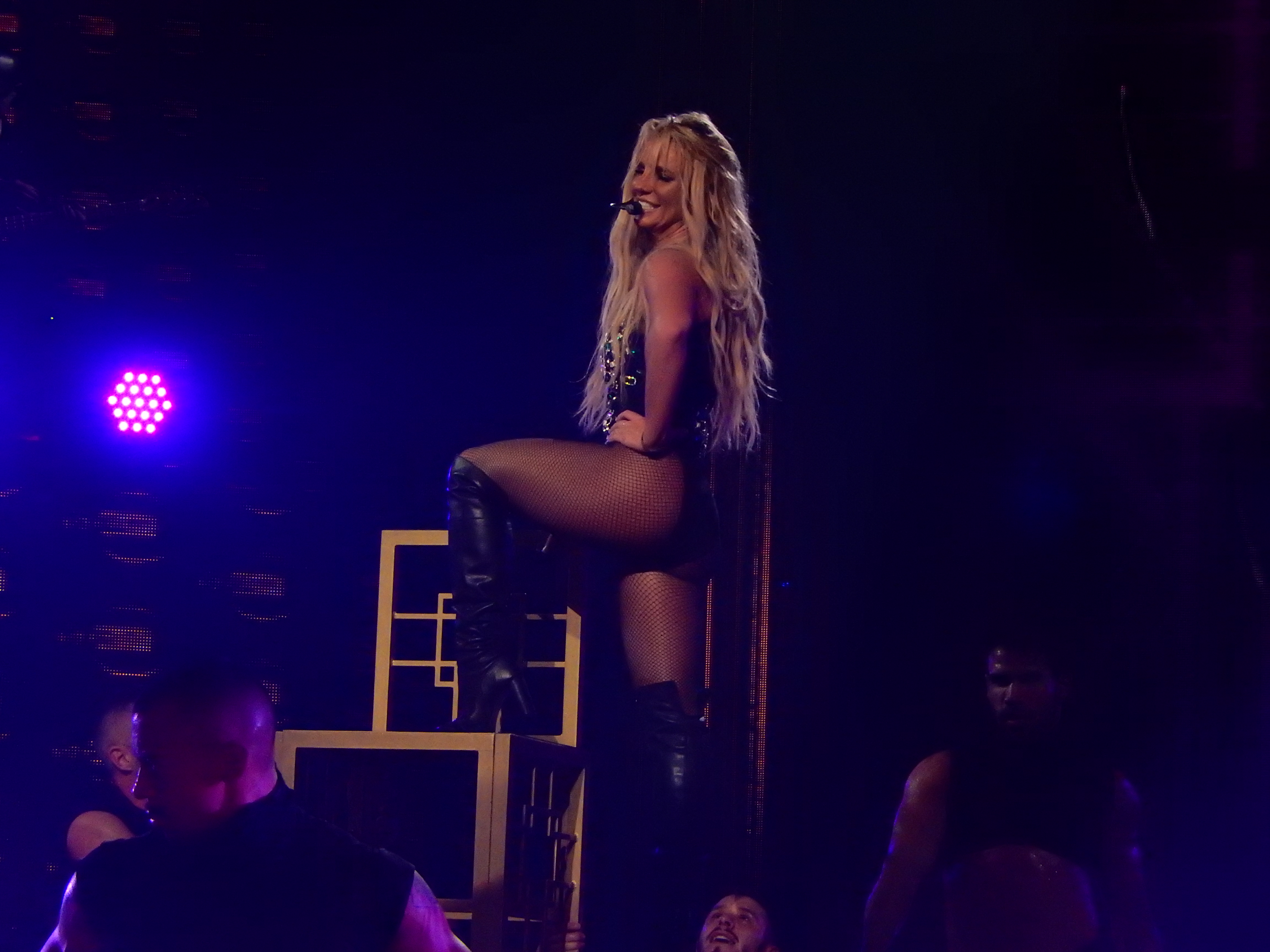 Britney Spears, Roundhouse, London (Apple Music Festival 2016)